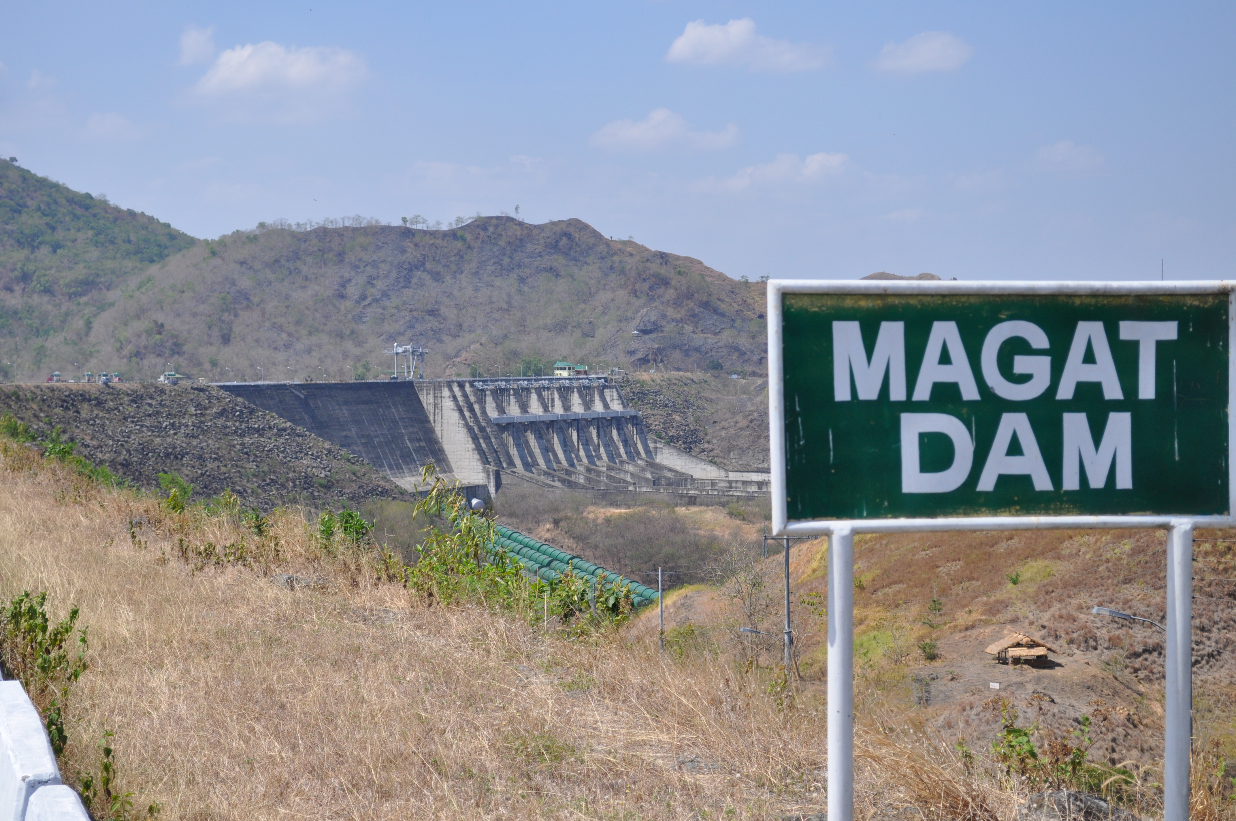 A photo of the Magat Dam in the island of Luzon in the Philippines, with its entrance sign in the foreground.